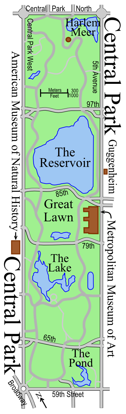 A map of Central Park, in New York City.